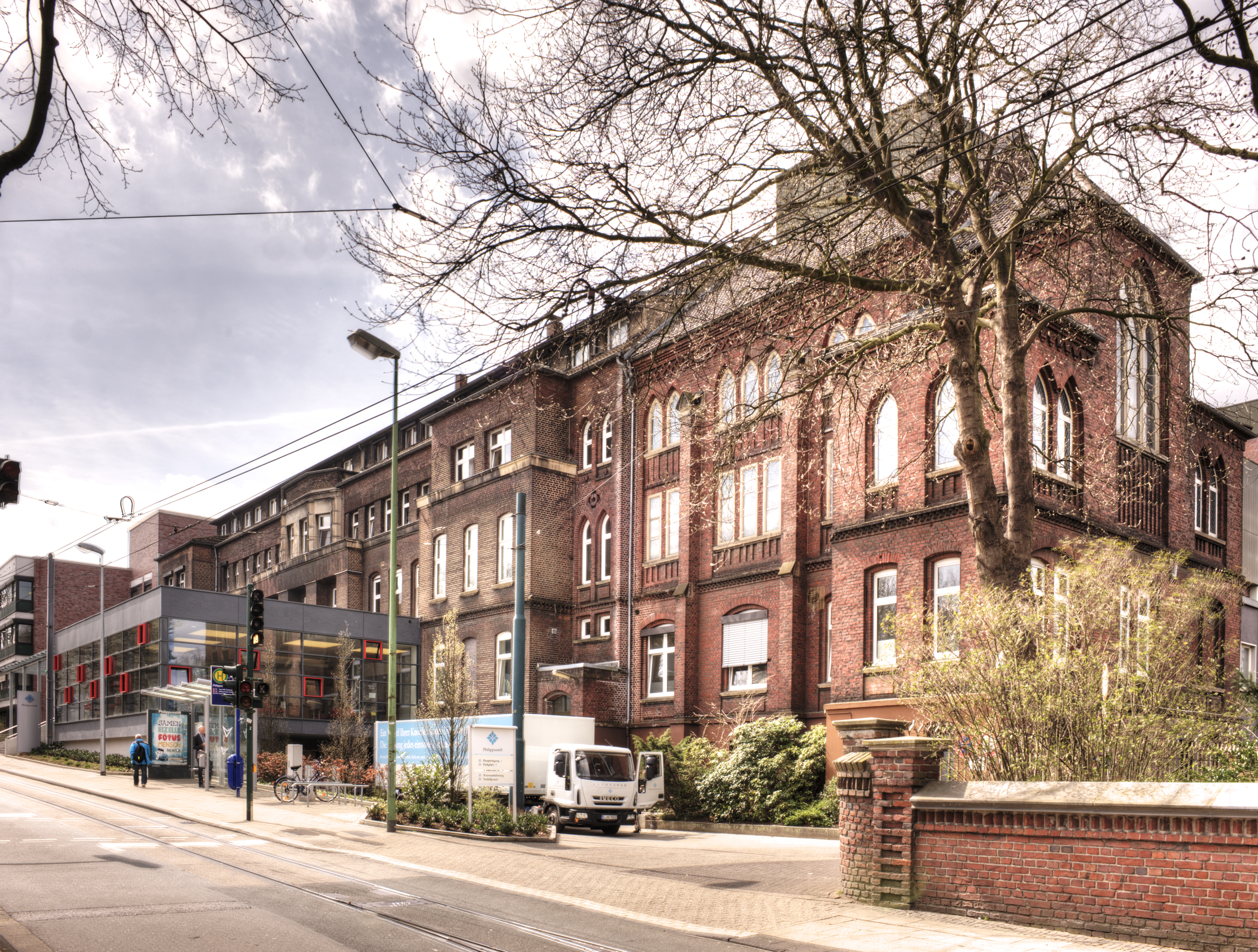 Front view of Catholic Hospital Philippusstift